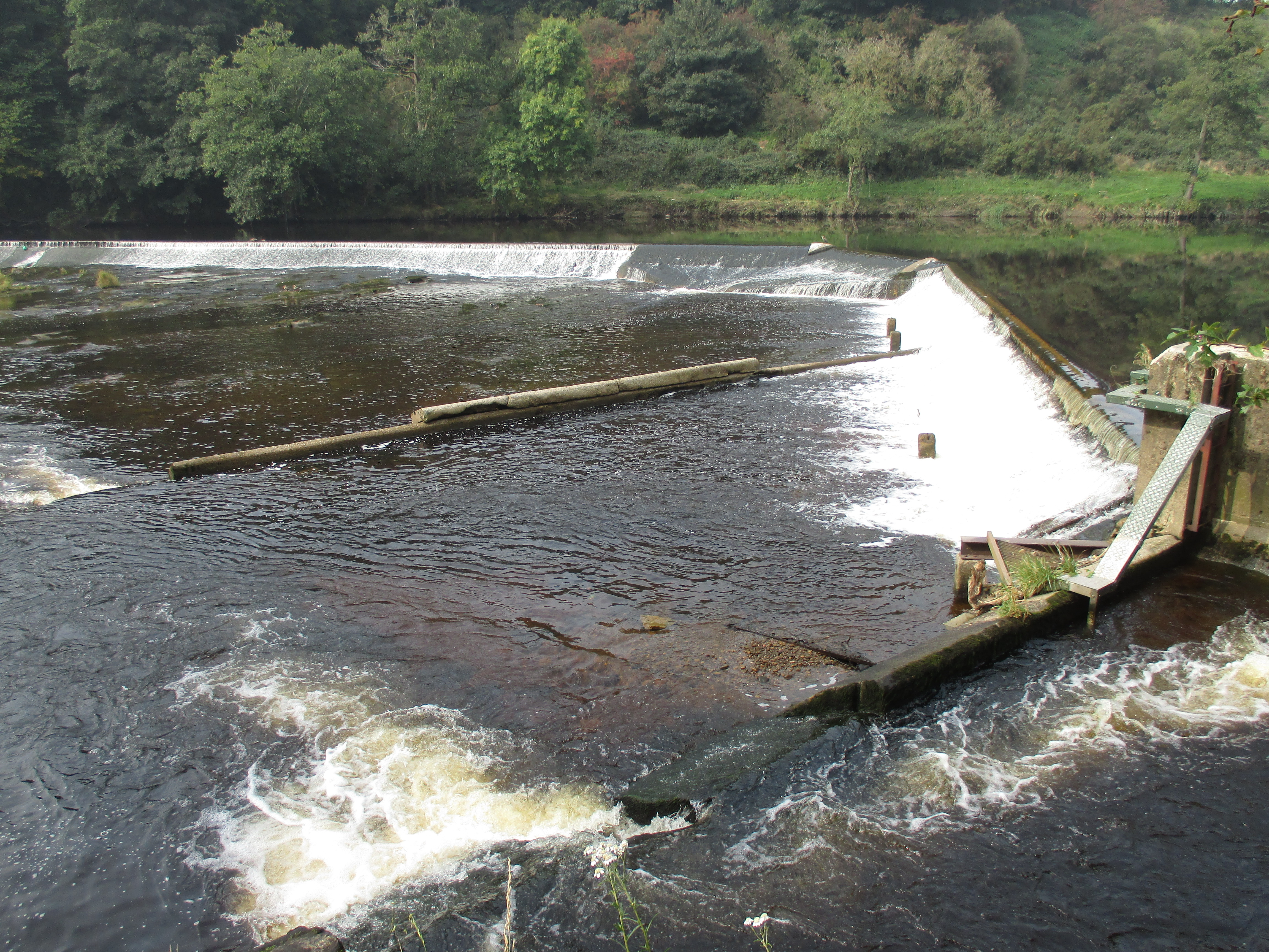 Forge Bank weir on the river Lune, near Halton, Lancashire, seen from the south bank.